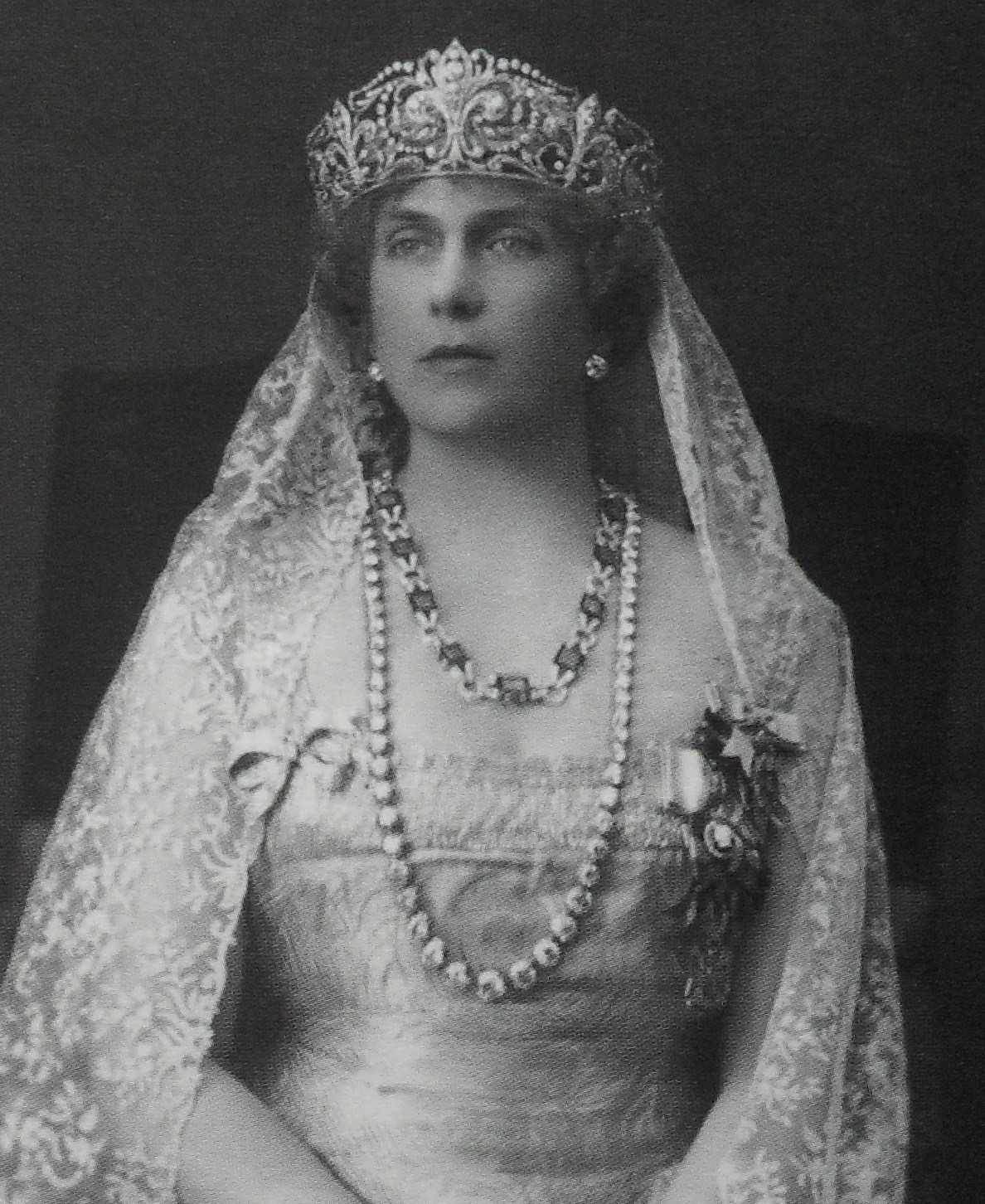 Queen of Spain Victoria Eugenie of Battenberg.